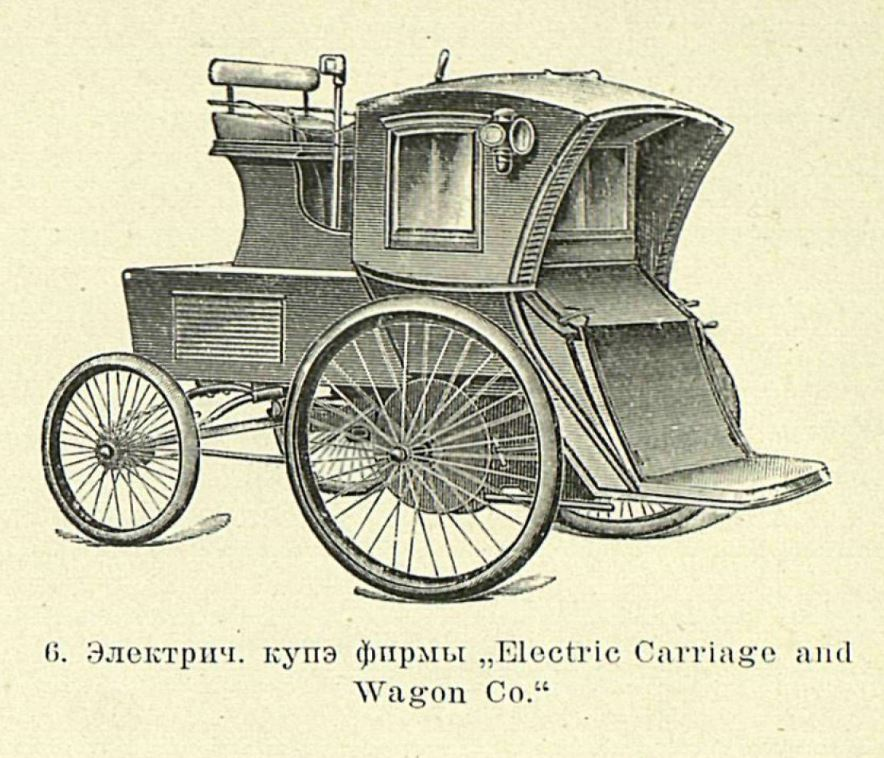 Illustration from Yuzhakov Big Encyclopedia (1900–1907). Automobiles.